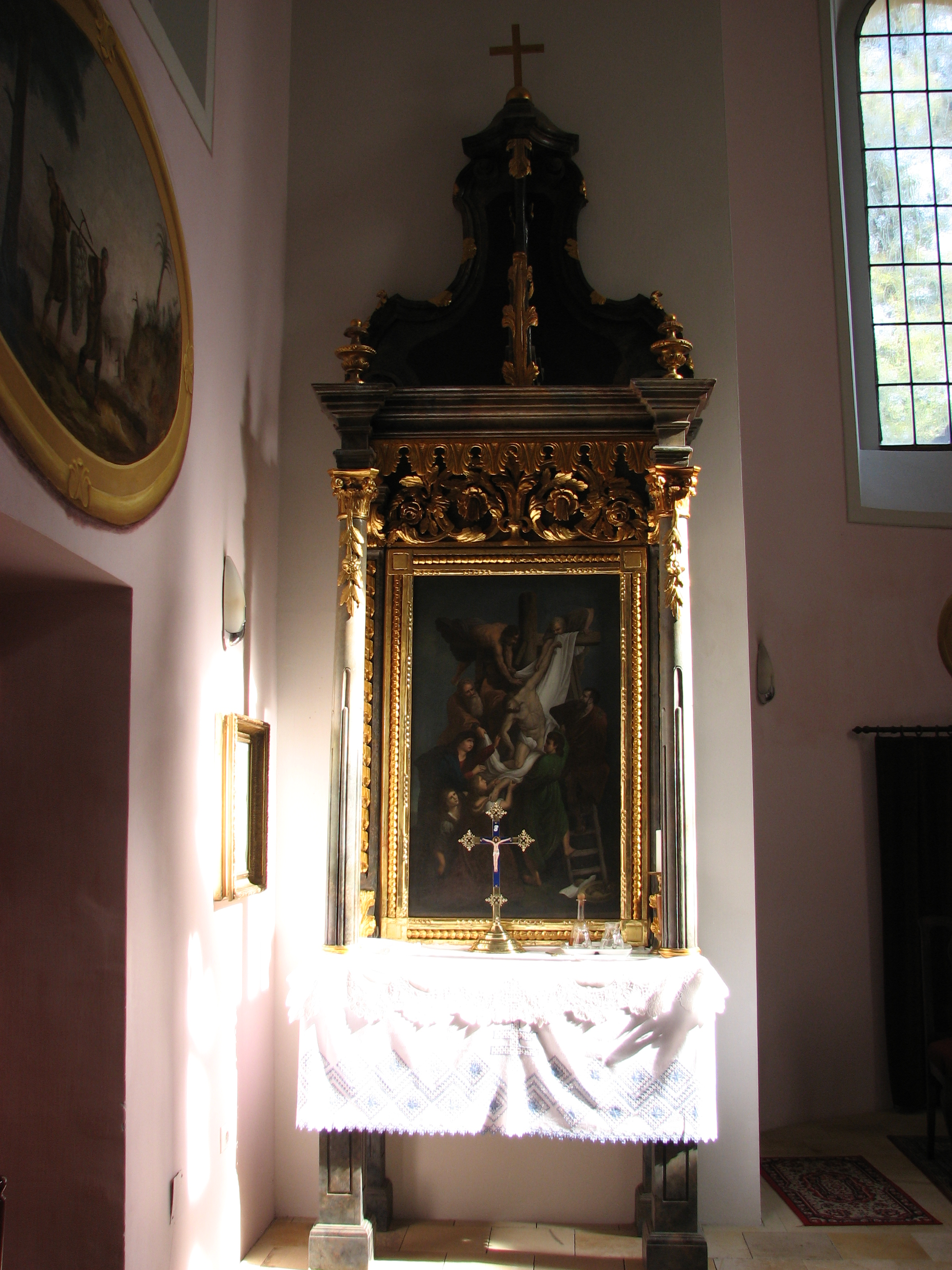 The picture depicts the side altar or the altar of preparation of the Greek Catholic Cathedral of Hajdúdorog, Hungary. During the Greek Catholic liturgy the priests keep the wine and the bread on the side altar and it is brought to the main altar just before the holy communion. The painting of the side altar was probalby painted by György Révész in the early 19th century. It depicts the Descent from the Cross. The painter was strongly influenced by Rembradt's similar masterpiece: the Deposition.